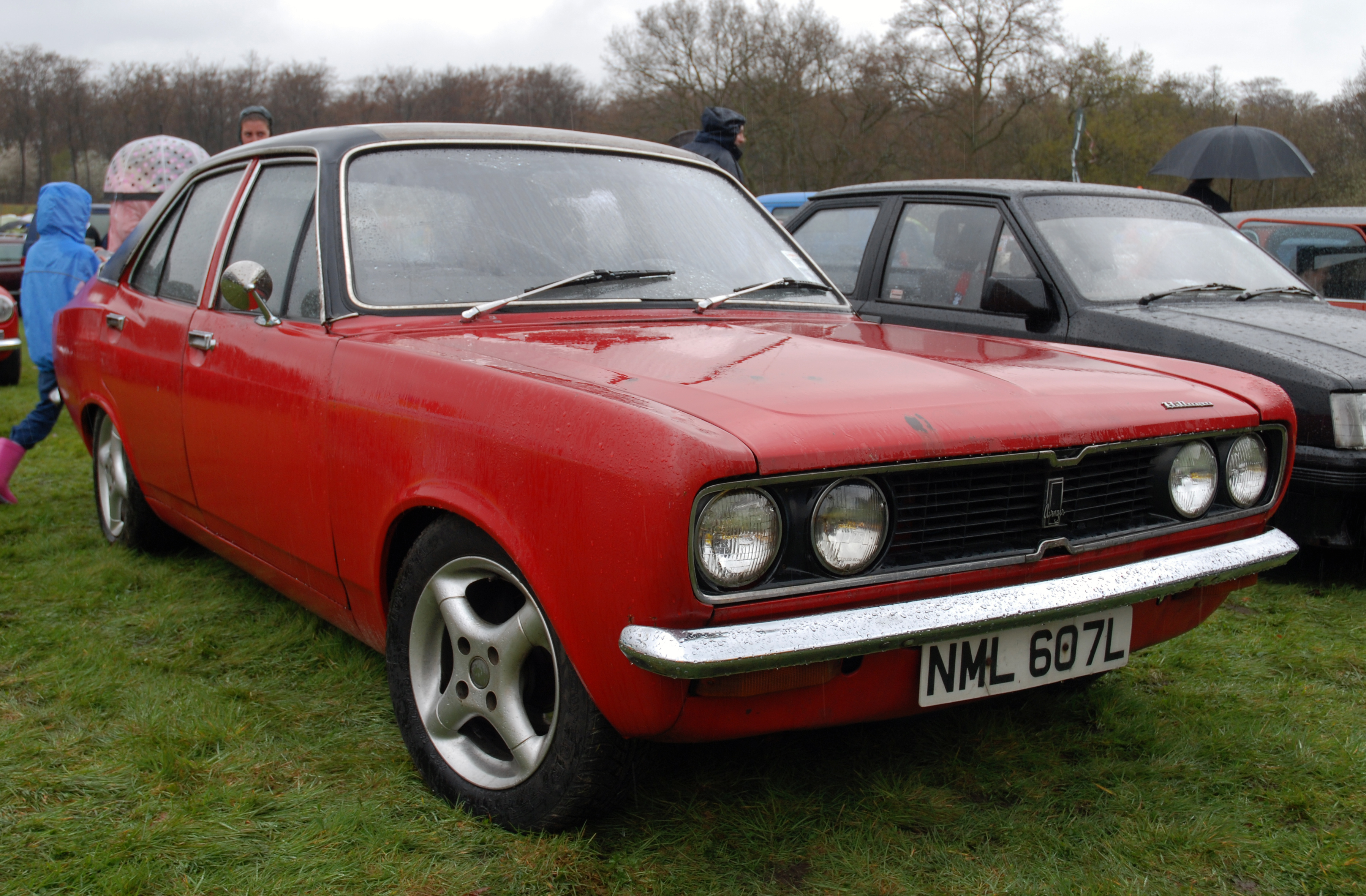 Wheels Day,Apr 2009